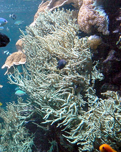 Leather coral (Sinularia sp.)